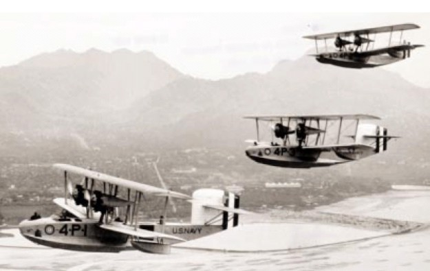 U.S. Navy Douglas PD-1 flying boats of patrol squadron VP-4D14 over Hawaii (USA), March 1930. "D14" designated the 14th Naval District.